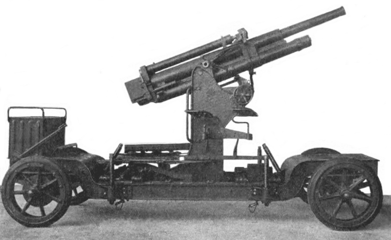 Photograph of US 3 inch M1918 Anti-aircraft gun on Auto-Trailer, in travelling position.